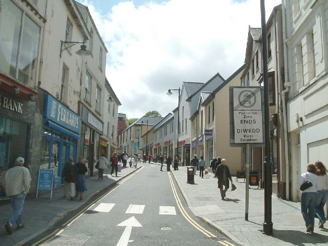 Crane Street, Pontypool A redeveloped Crane Street (one of the principal shopping streets) and new shop units. Photograph taken from the North Eastern end of the street, facing South West.